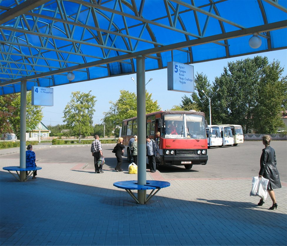 View at the bus station of Slutsk city, Minsk region, Belarus.